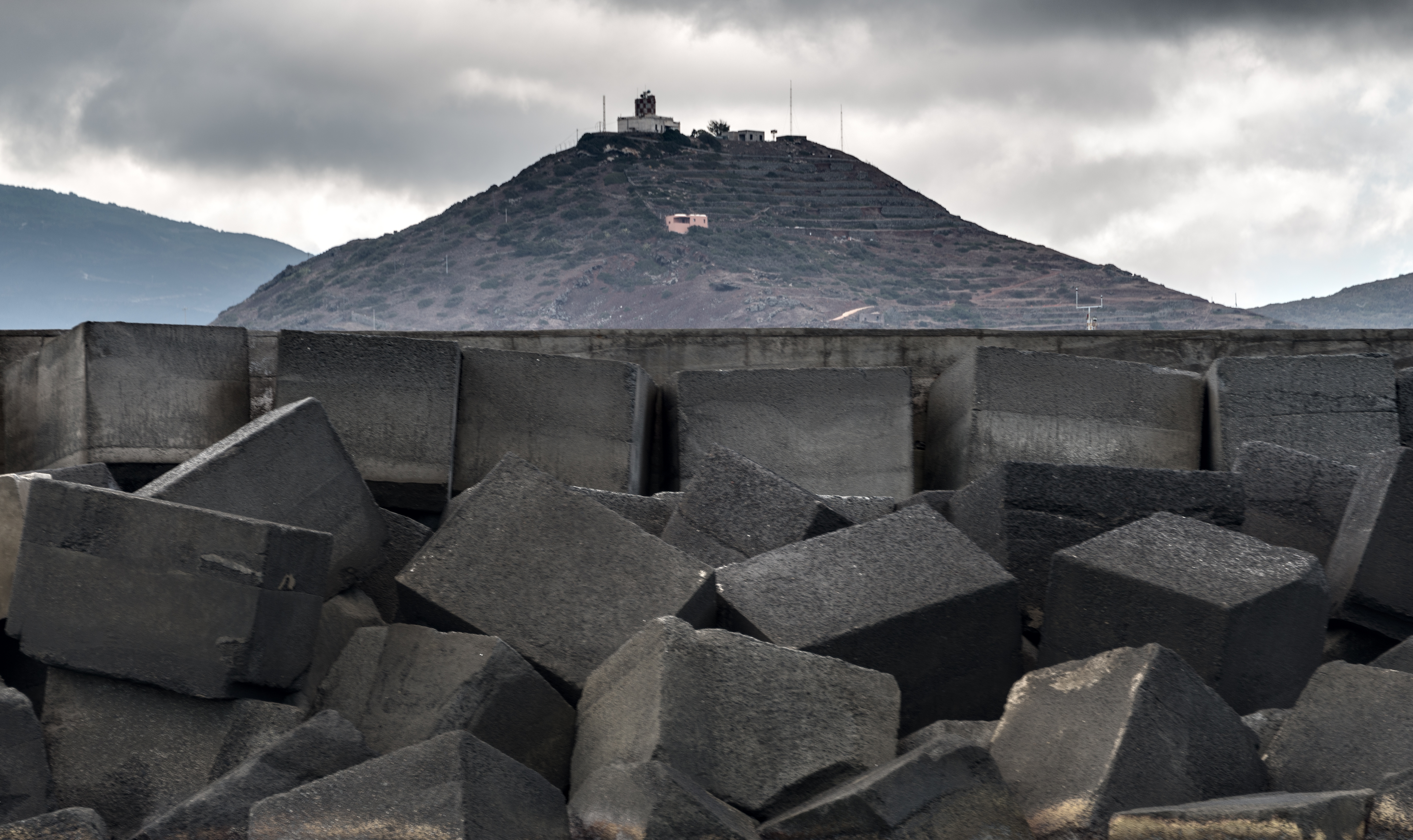 Concrete blocks - Pantelleria, Trapani, Italy